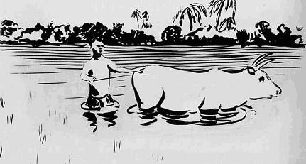 During monsoon the paddy fields in the Sunderbans are entirely flooded.